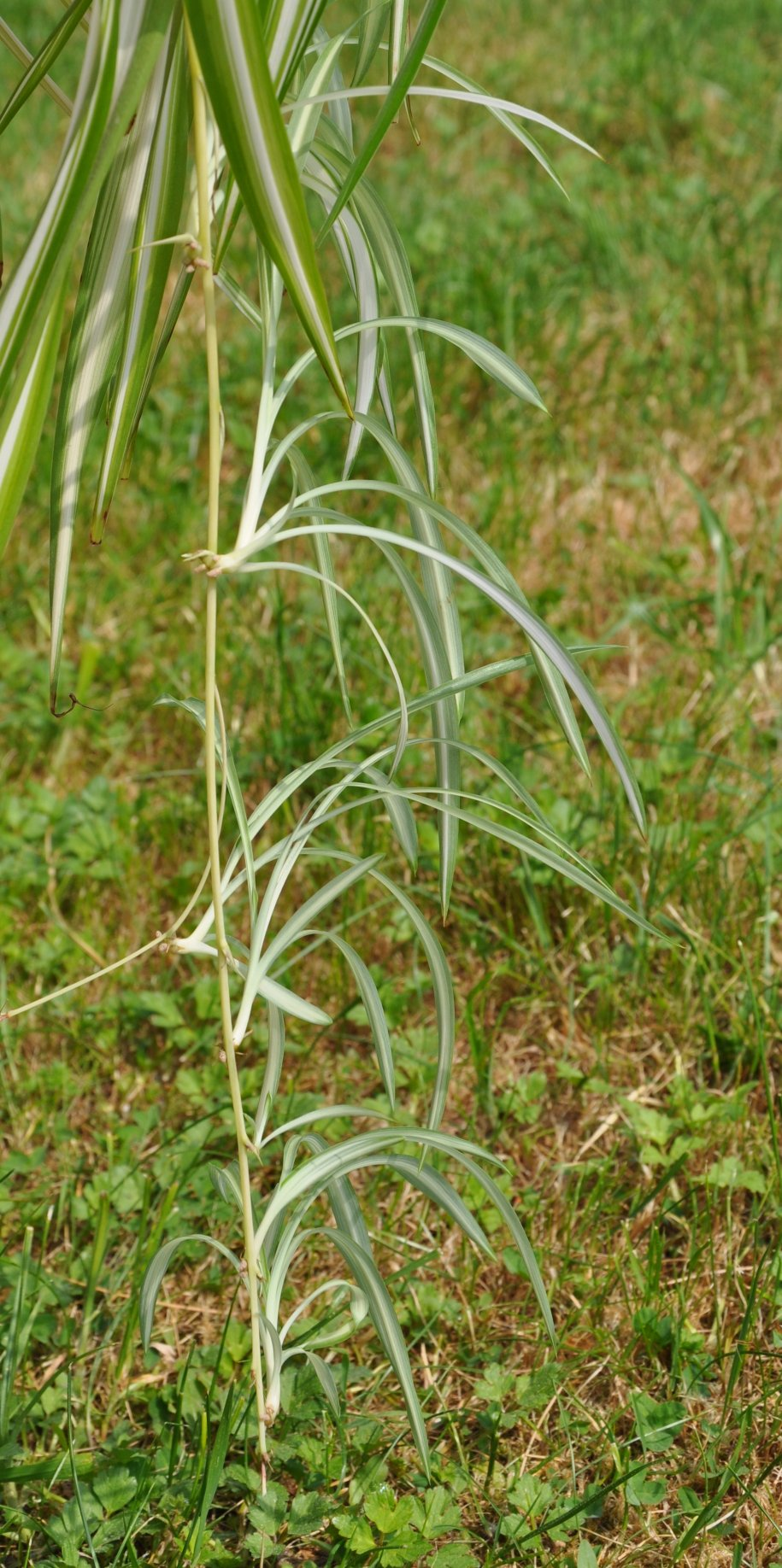 Chlorophytum Stolons